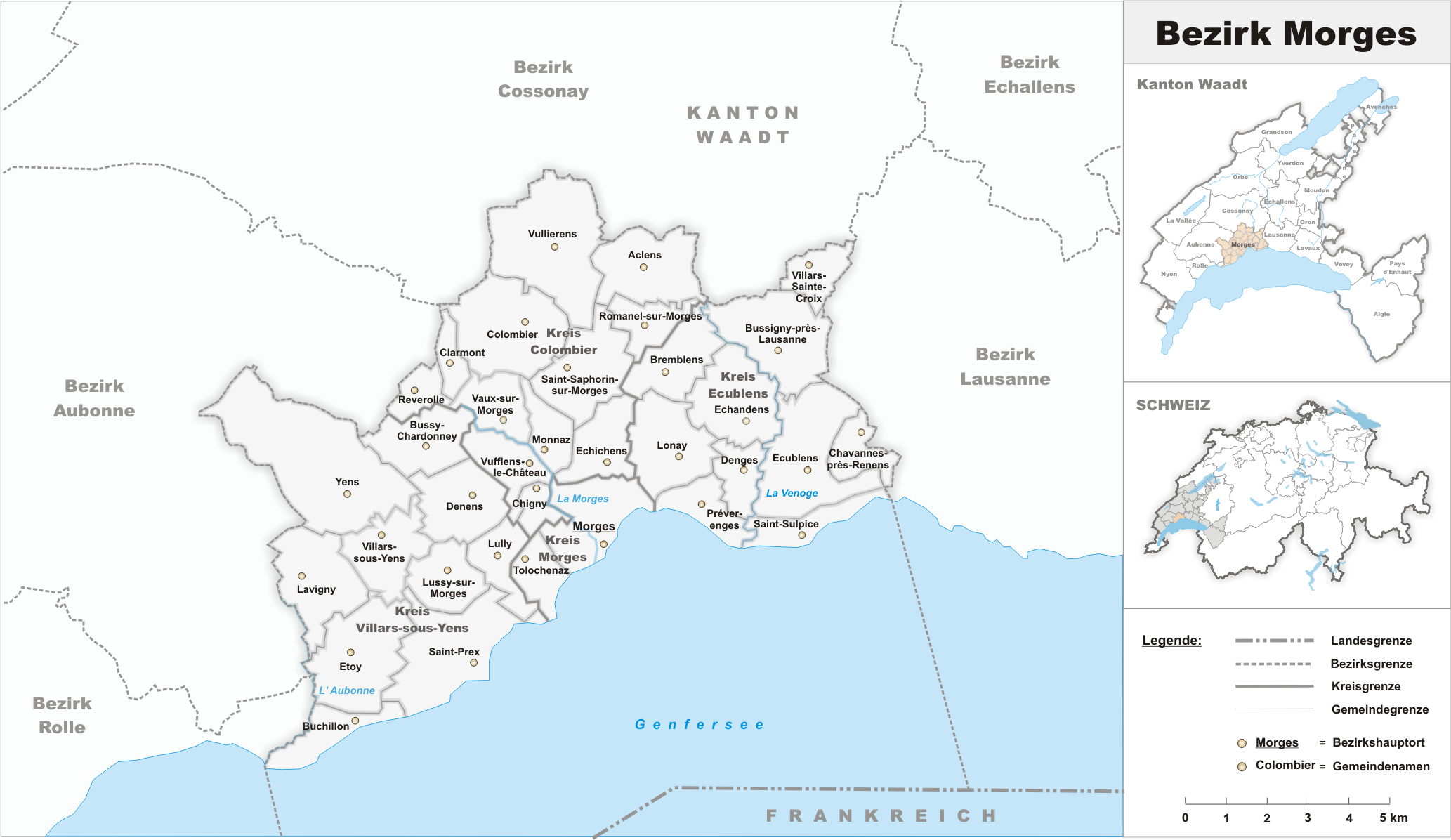 Municipalities in the district of Morges